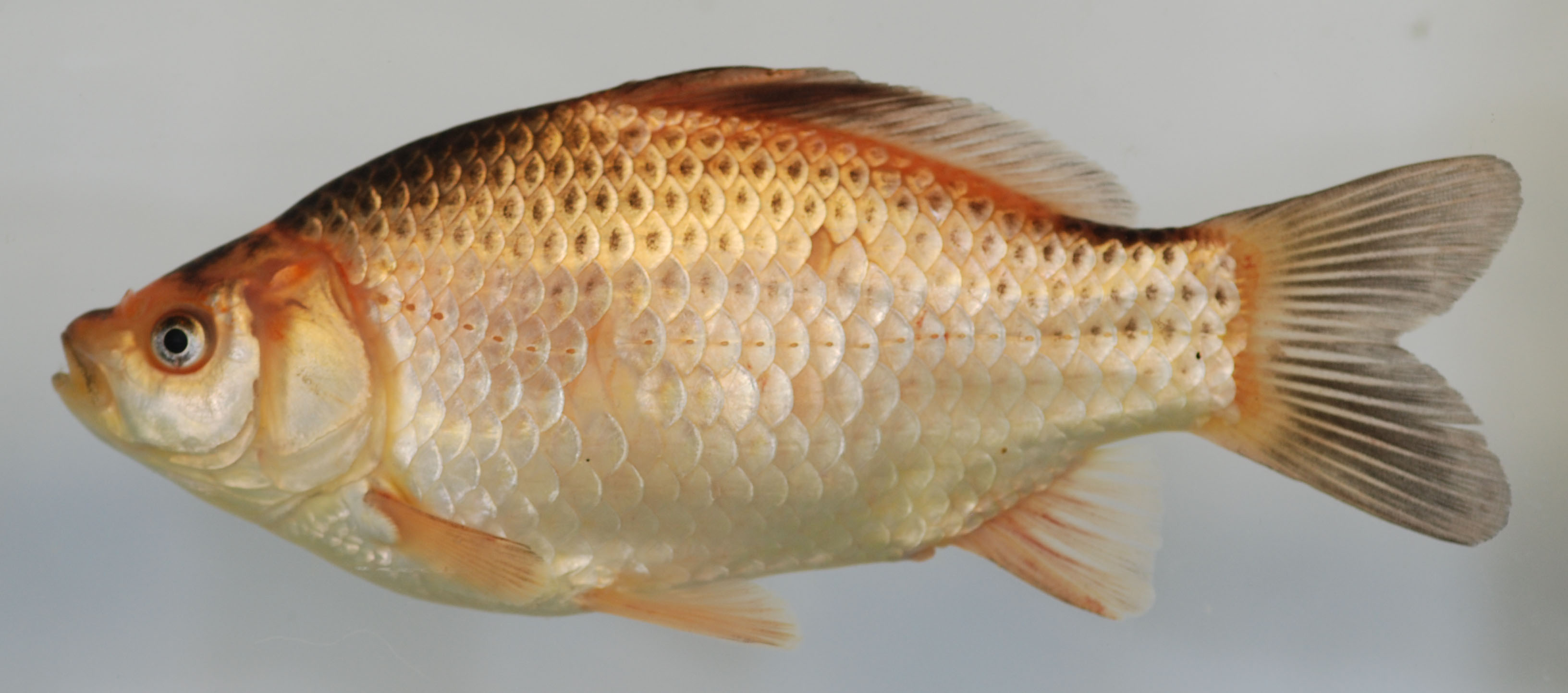 goldfish, (Carassius auratus), 131mm SL. Patuxent River, Prince George's County, MD - 5/03/12. Photo by Robert Aguilar, Smithsonian Environmental Research Center